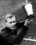 Björn Nordqvist, Guldbollen winner 1968